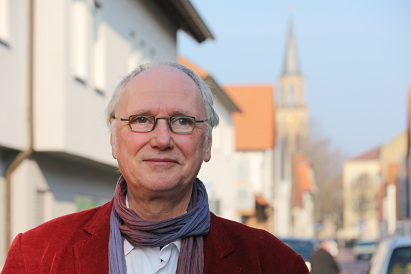 Portrait of Wolfgang Hien (Bremen) made by Fritz Hofmann (Ludwigshafen)